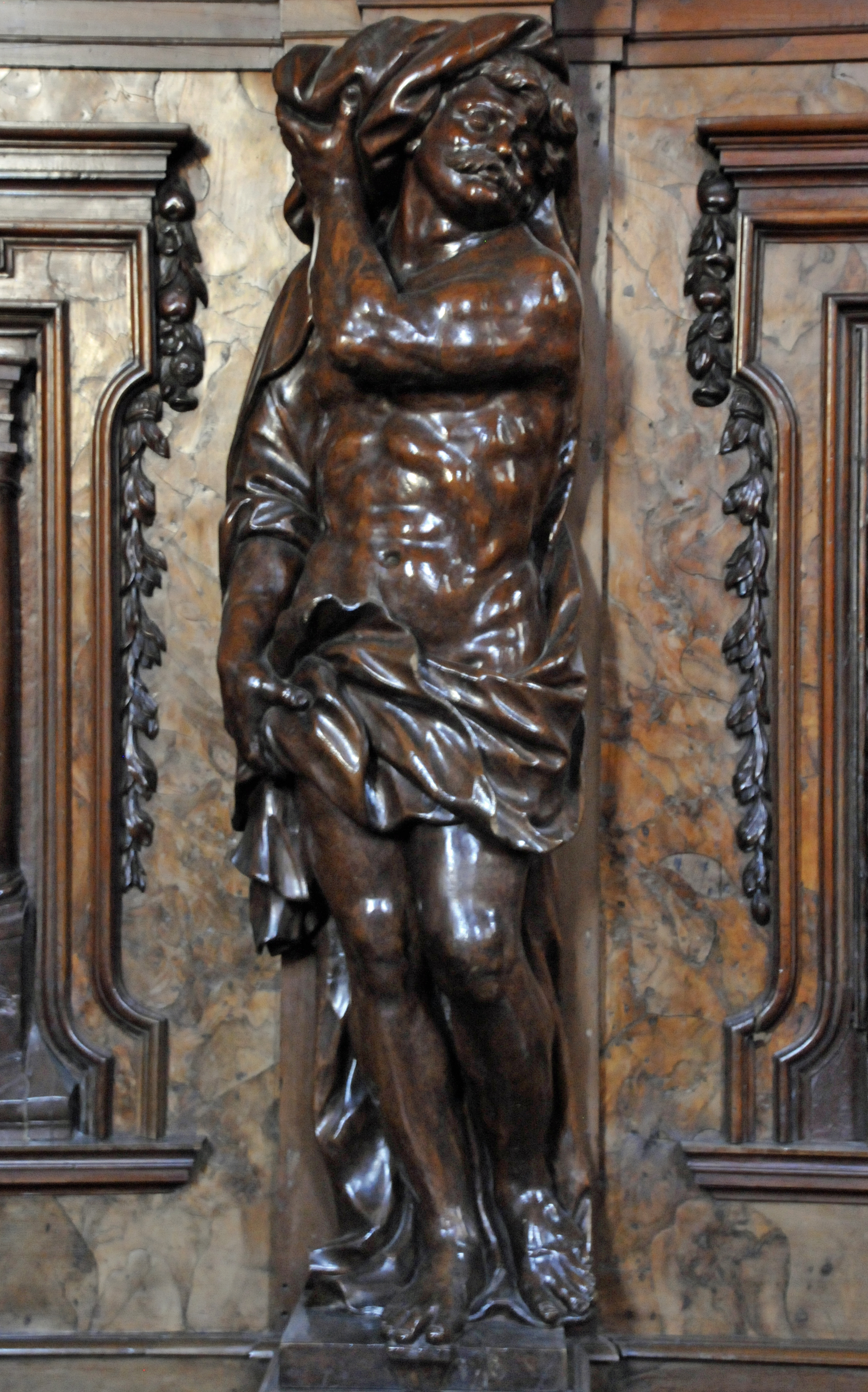 Giacomo Piazzetta (1698), Chiesa di Santi Giovanni e Paolo, Venice.